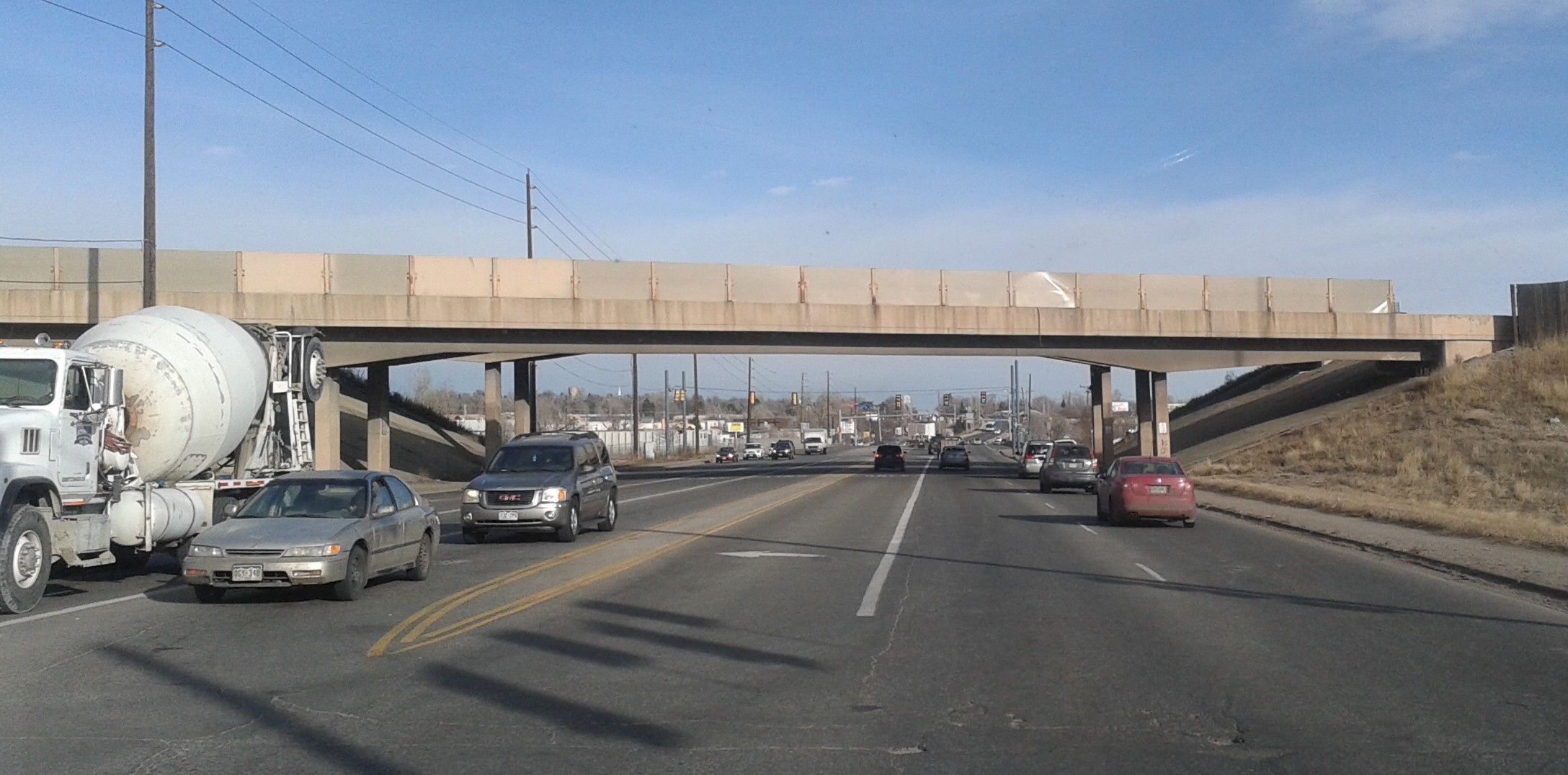 I-76 bridge over Sheridan Blvd(CO-95), Adams Co., CO